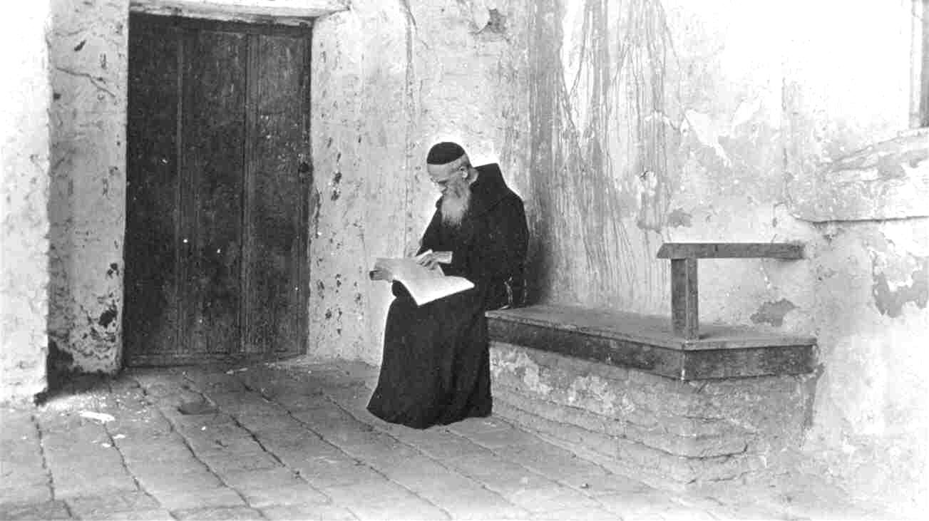 Father Zephyrin Engelhardt, O.F.M. visits Mission San Juan Capistrano in 1915. img URL